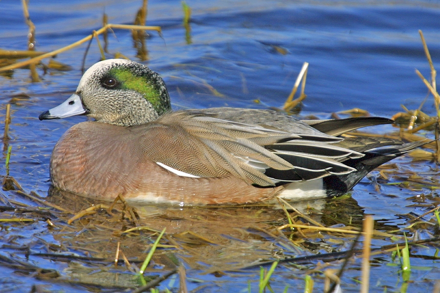 An American Wigeon (Anas Americana) in Port Coquitlam, British Columbia (Canada) in 2004